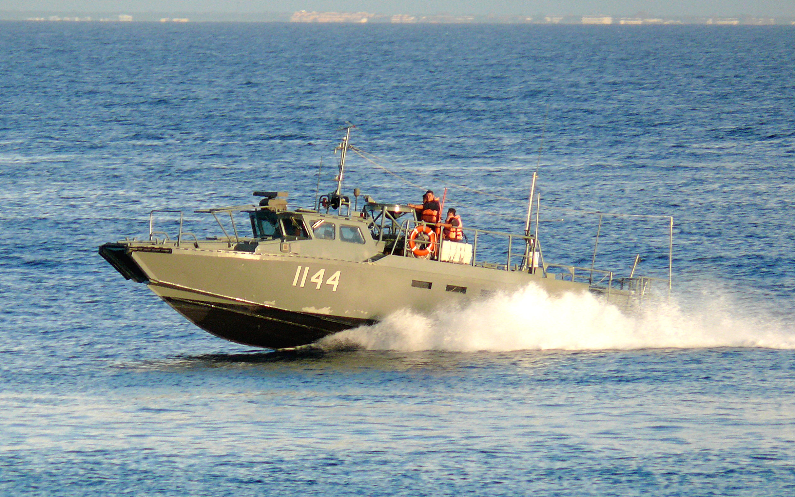 The ARM Phekda (PI-1144) is a Polaris-class interceptor of the Armada República Mexicana (Mexican Navy).Photo taken with a Panasonic Lumix DMC-FZ50 on the island of Cozumel in Quintana Roo, Mexico.